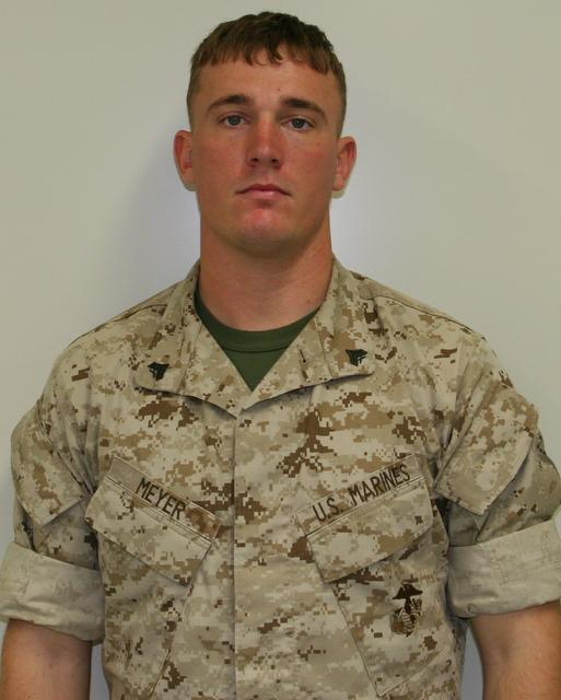 US Marine Cpl Dakota Meyer